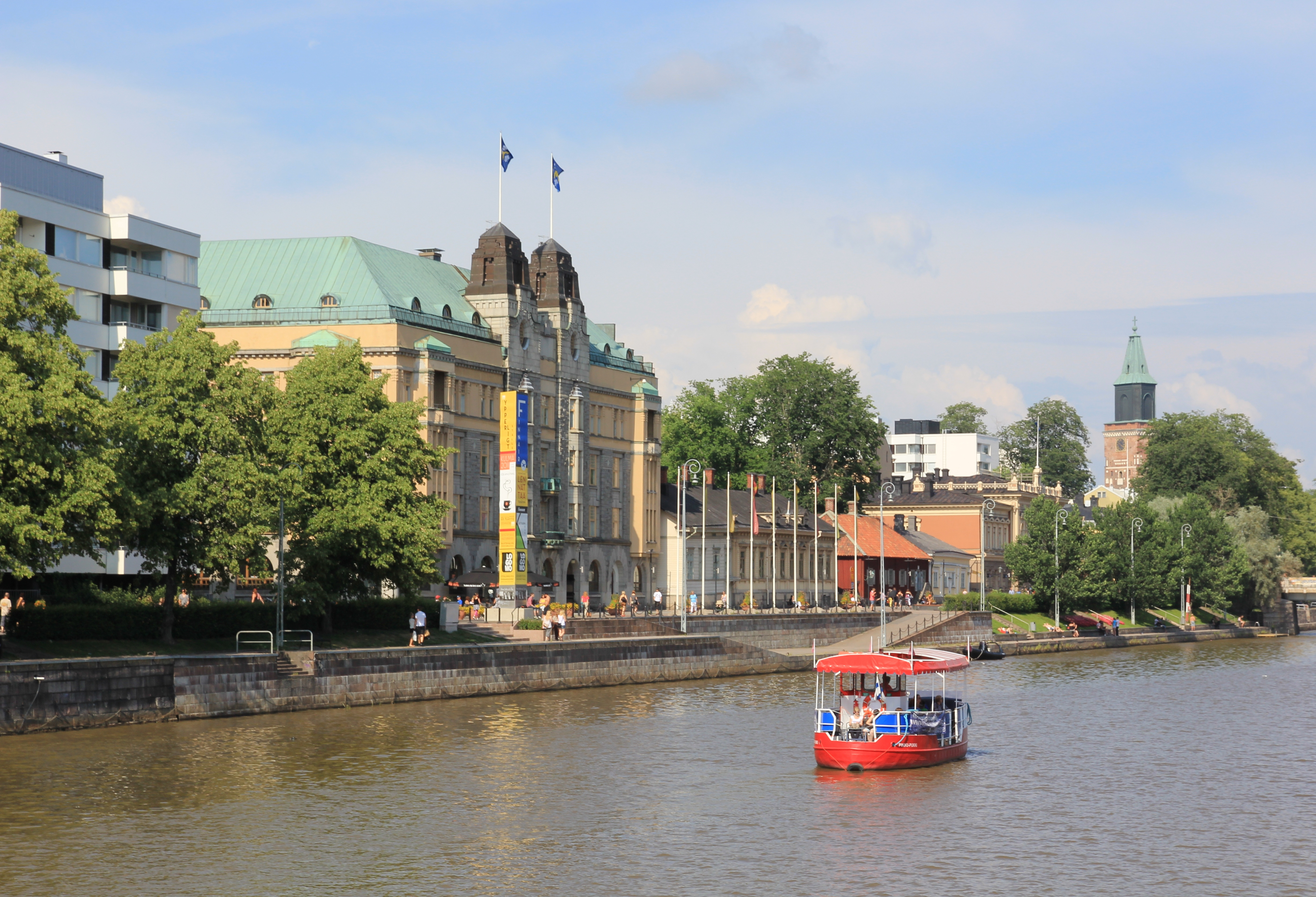 Shore of Aura river in Turku at Läntinen Rantakatu street between Teatterisilta and Auransilta bridges. River ferry Pikku-Pukki.